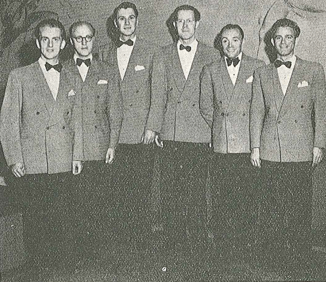 Andrew Walter (1914-1978), Swedish accordionist and bandleader with his band at the Virveln ballroom, autum of 1942. From left: Gösta Bernholm (piano), Andrew Walter (accordion), Freddy Lönngren (tenor sax, violin), Oscar Rundqvist (alto sax, violin), Nils Croona (drums) and Gösta Forsberg (trumpet, violin).